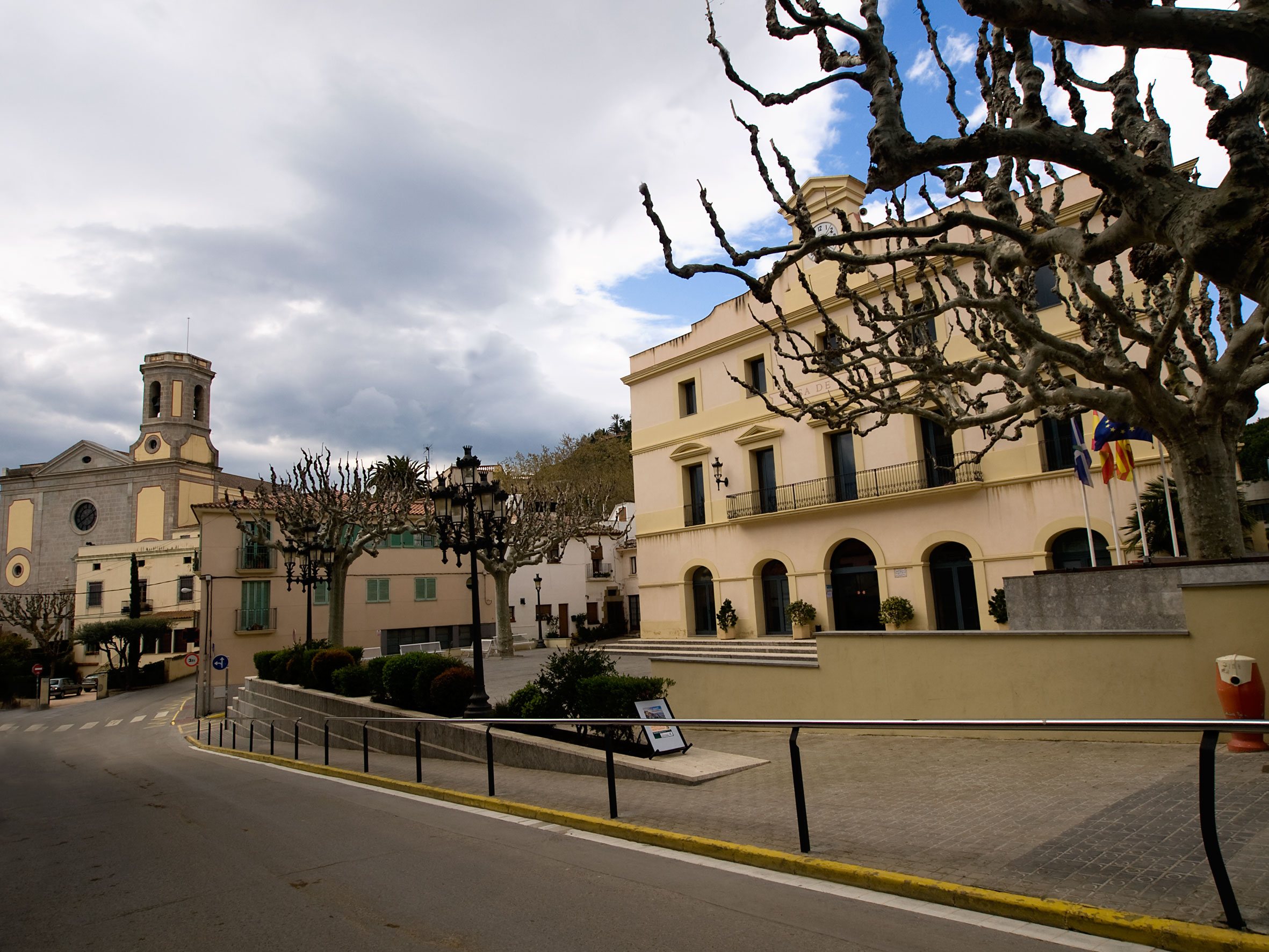 City council and church of St. Andreu de Llavaneres (Catalonia, Spain)